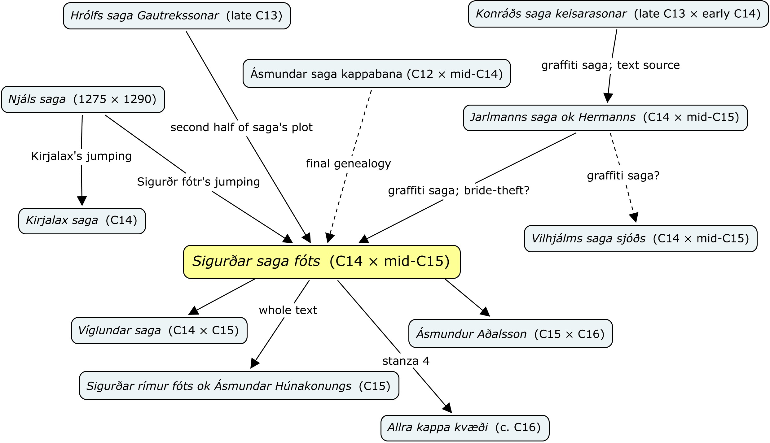 The intertextual connections of Sigurdar saga fots, originally published as Alaric Hall and others, ‘Sigurðar saga fóts (The Saga of Sigurðr Foot): A Translation', Mirator, 11 (2010), 56-91 (p. 62, fig. 1)